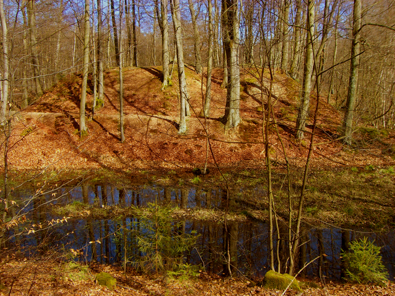 Motte-and-bailey of Laudert. Picture taken from the southeast.